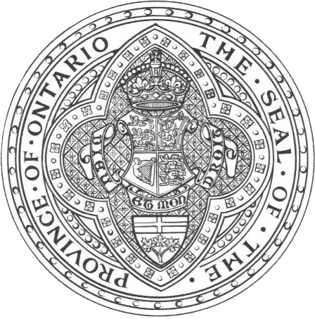 Great Seal of Ontario